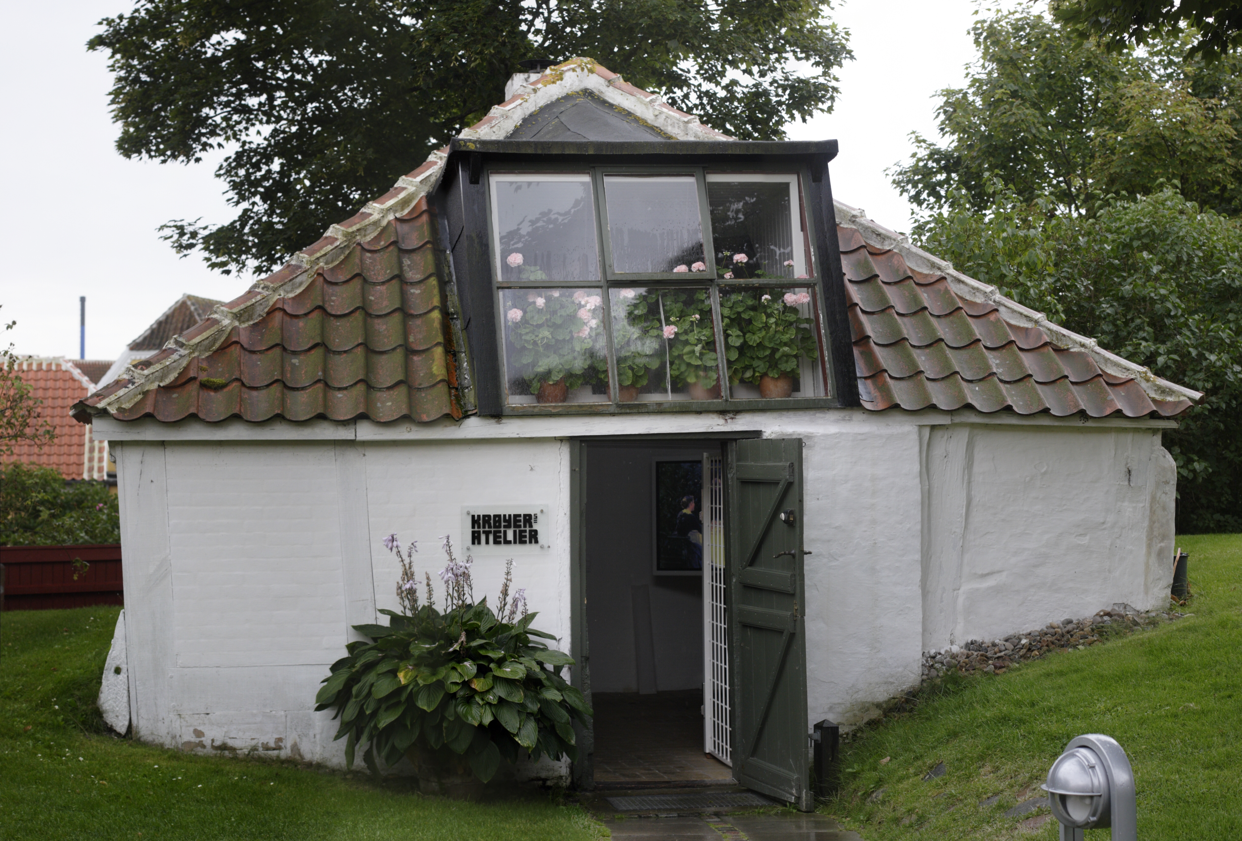 Peder Severin Krøyer' Studio at Skagens Museum